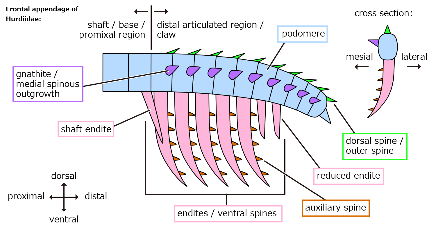 Generalized external morphology of Radiodont frontal appendage from the family Hurdiidae.